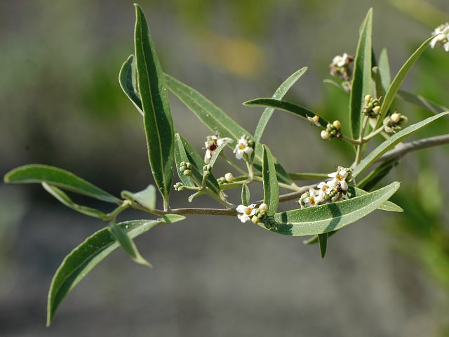 Flowering shoot of Avicennia germinans (Avicennioideae-Acanthaceae). Ajuruteua beach, Bragança, Pará, North Brazil*